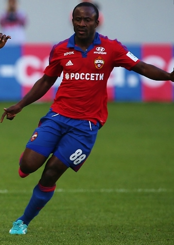 Seydou Doumbia